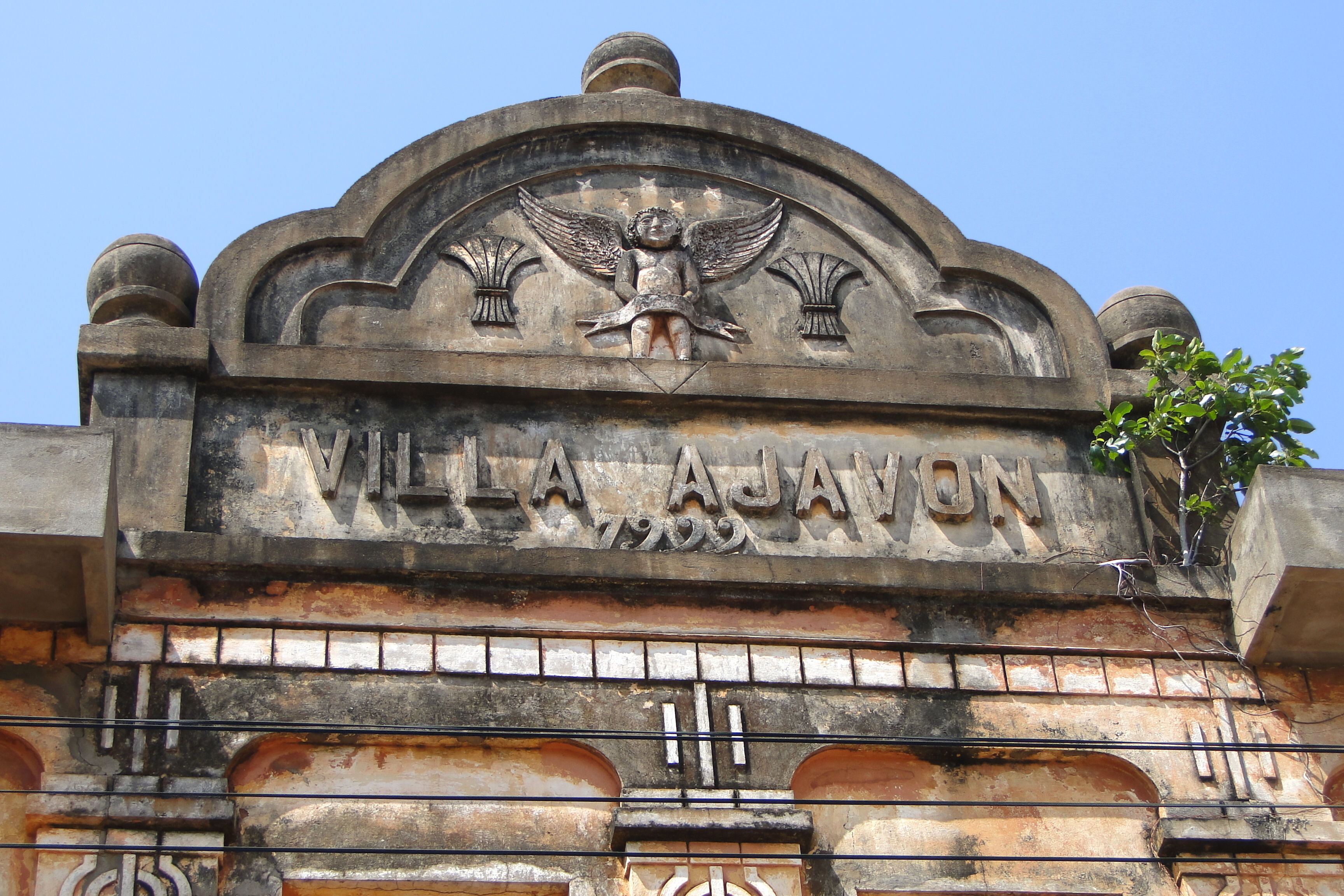 Villa Ajavon - Facade of Early 20th-Century French Colonial Edifice - Ouidah - Benin